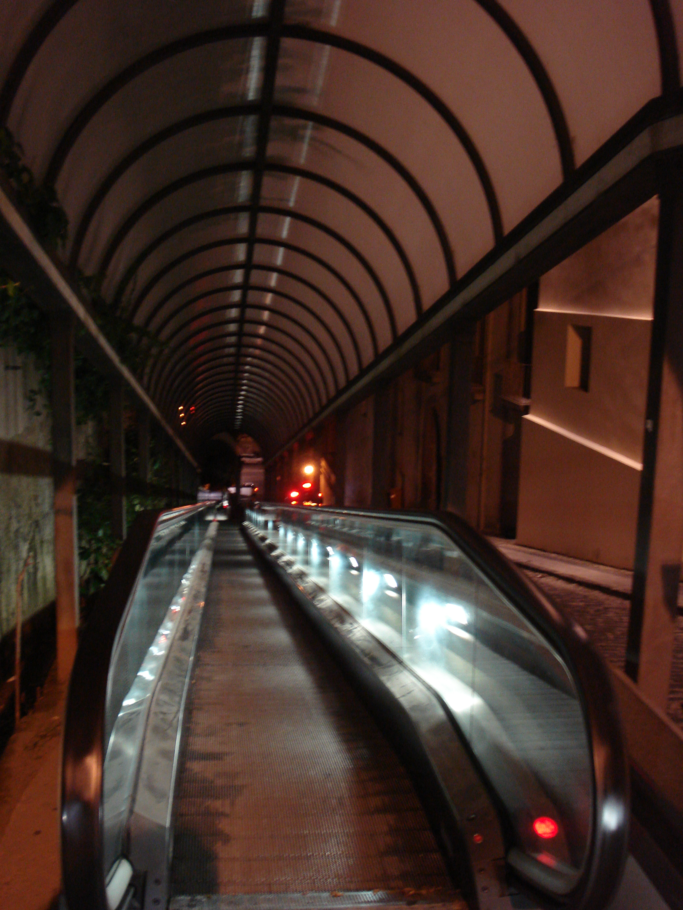 escalators in the old town of Cosenza, which connect the Santo Spirito neighborhood to Piazza XV Marzo